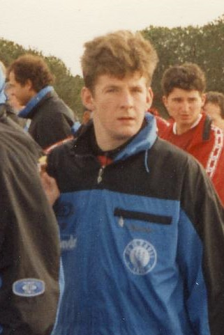 Carsten Wehlmann as Player of FC St. Pauli